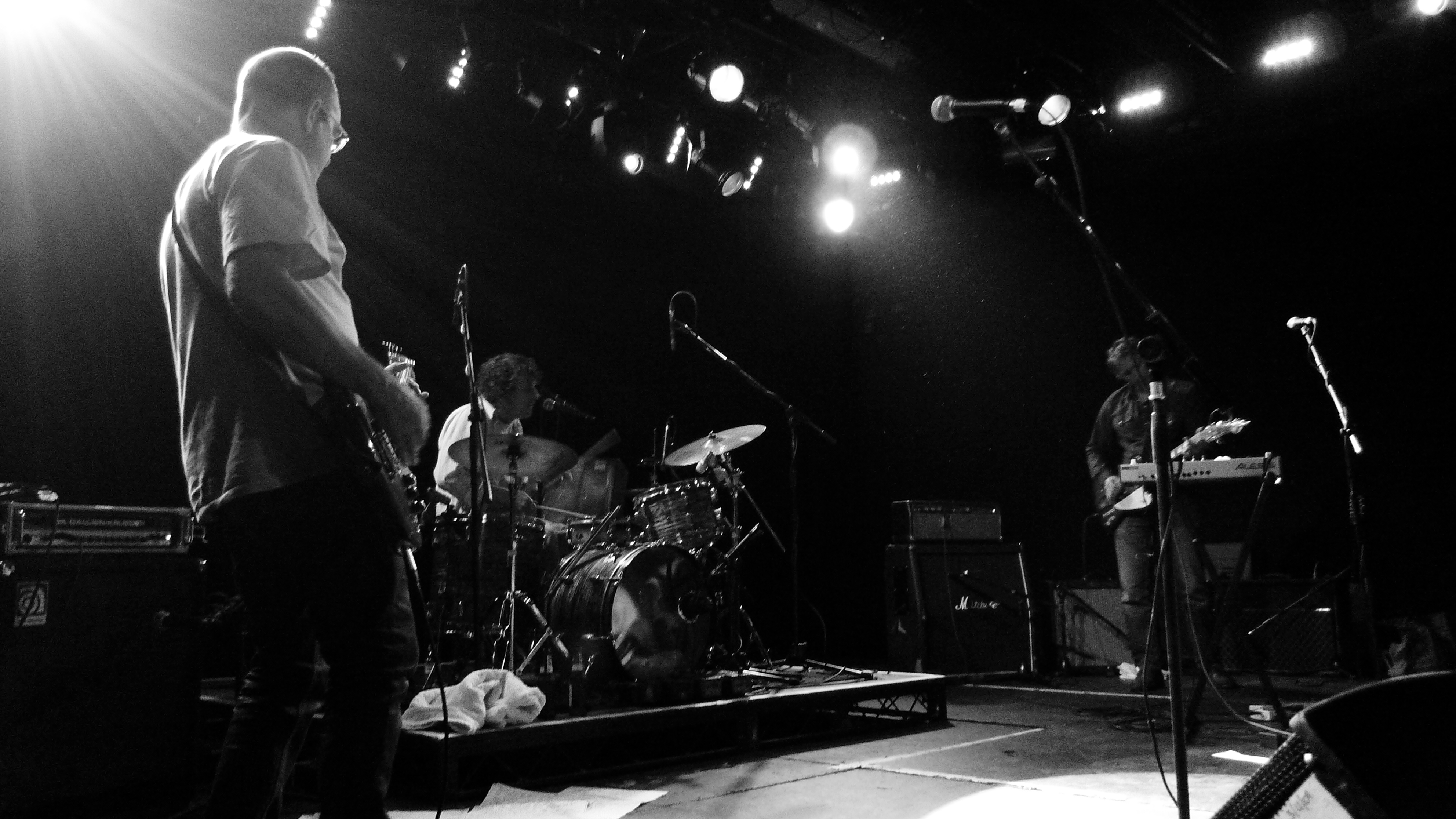 The Clean. The band together on stage. At the ICA, The Mall (St James's, London).